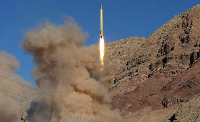 Qadr ballistic missile